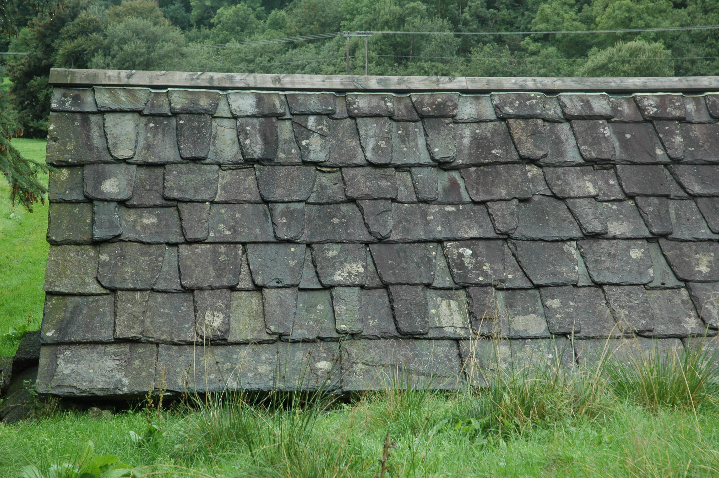 Slate roof on old house in Rosendal, Norway. My own photograph, Kjetil Lenes.